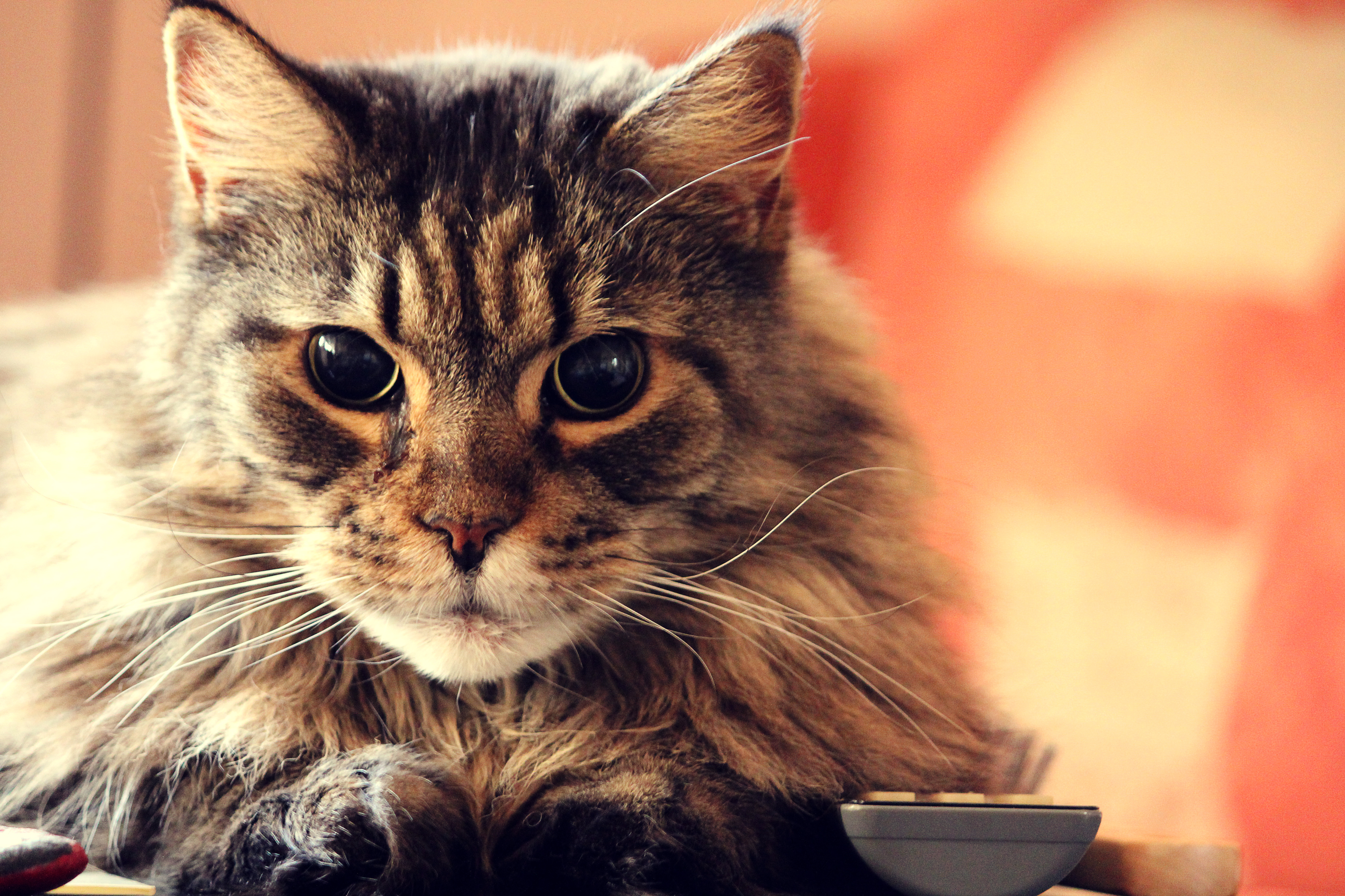 Blind Maine Coon called Klara